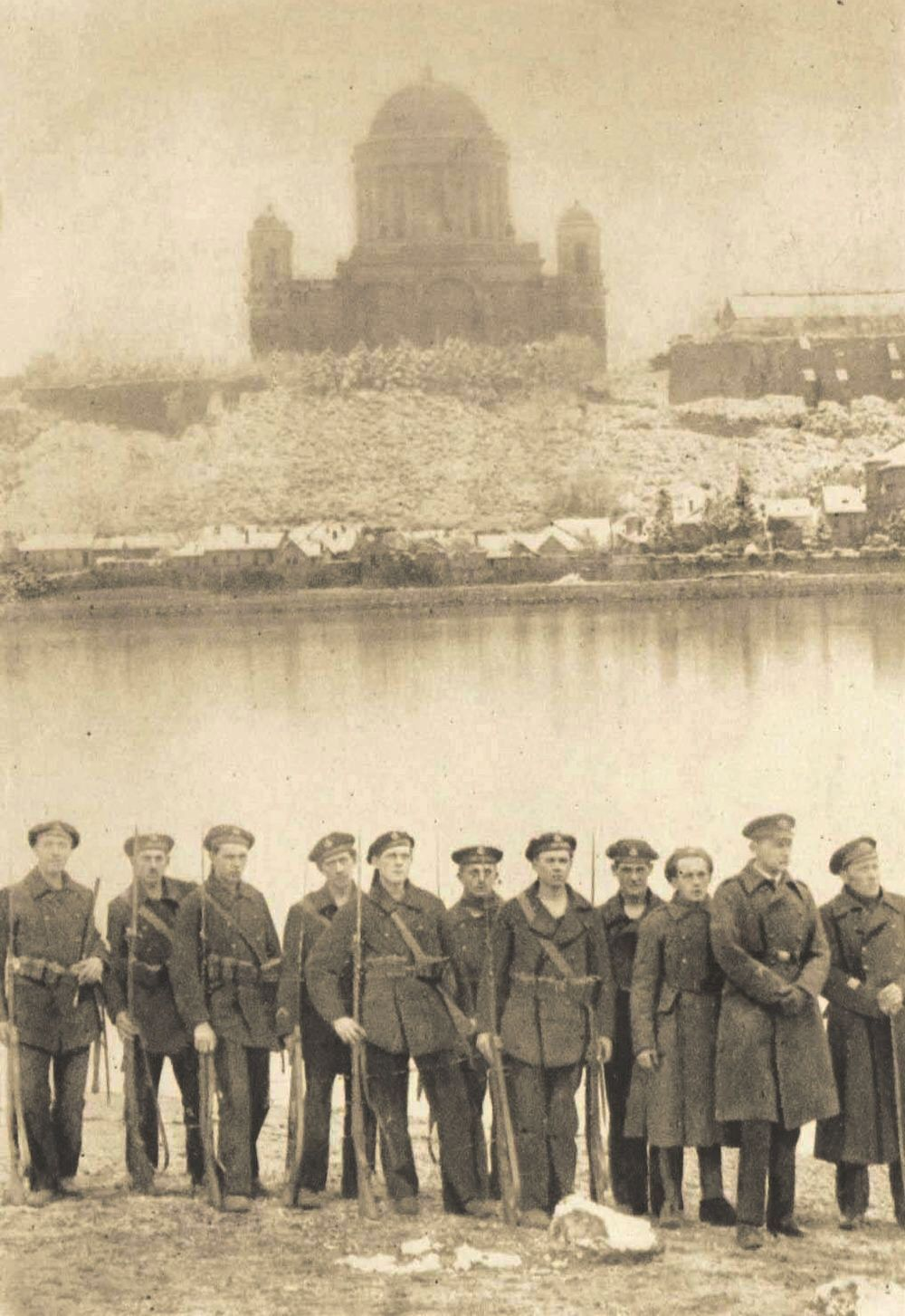 Czechoslovak marines in Štúrovo with the Esztergom Dome in the behind.